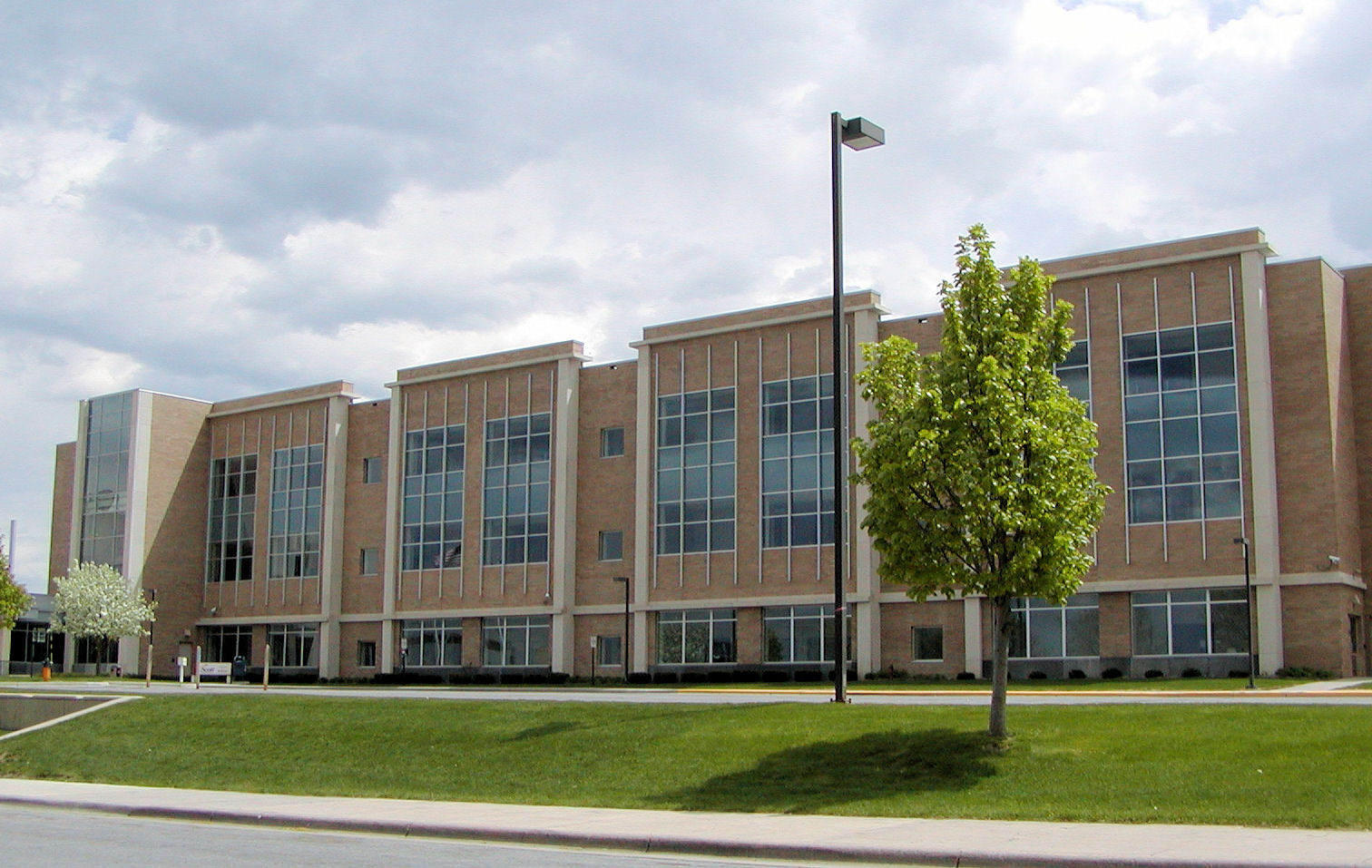 Scott County Offices